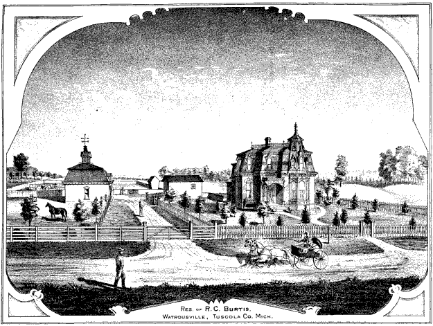 The Richard C. Burtis House was shown in an 1883 illustration appearing in a history of Tuscola and Bay Counties, Michigan.